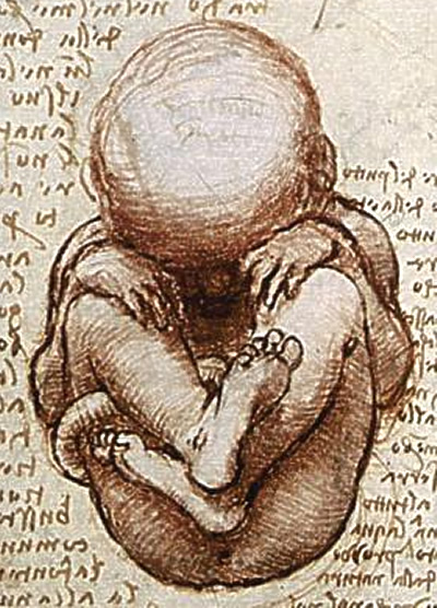 Views of a Foetus in the Womb, detail from a drawing by Leonardo da Vinci